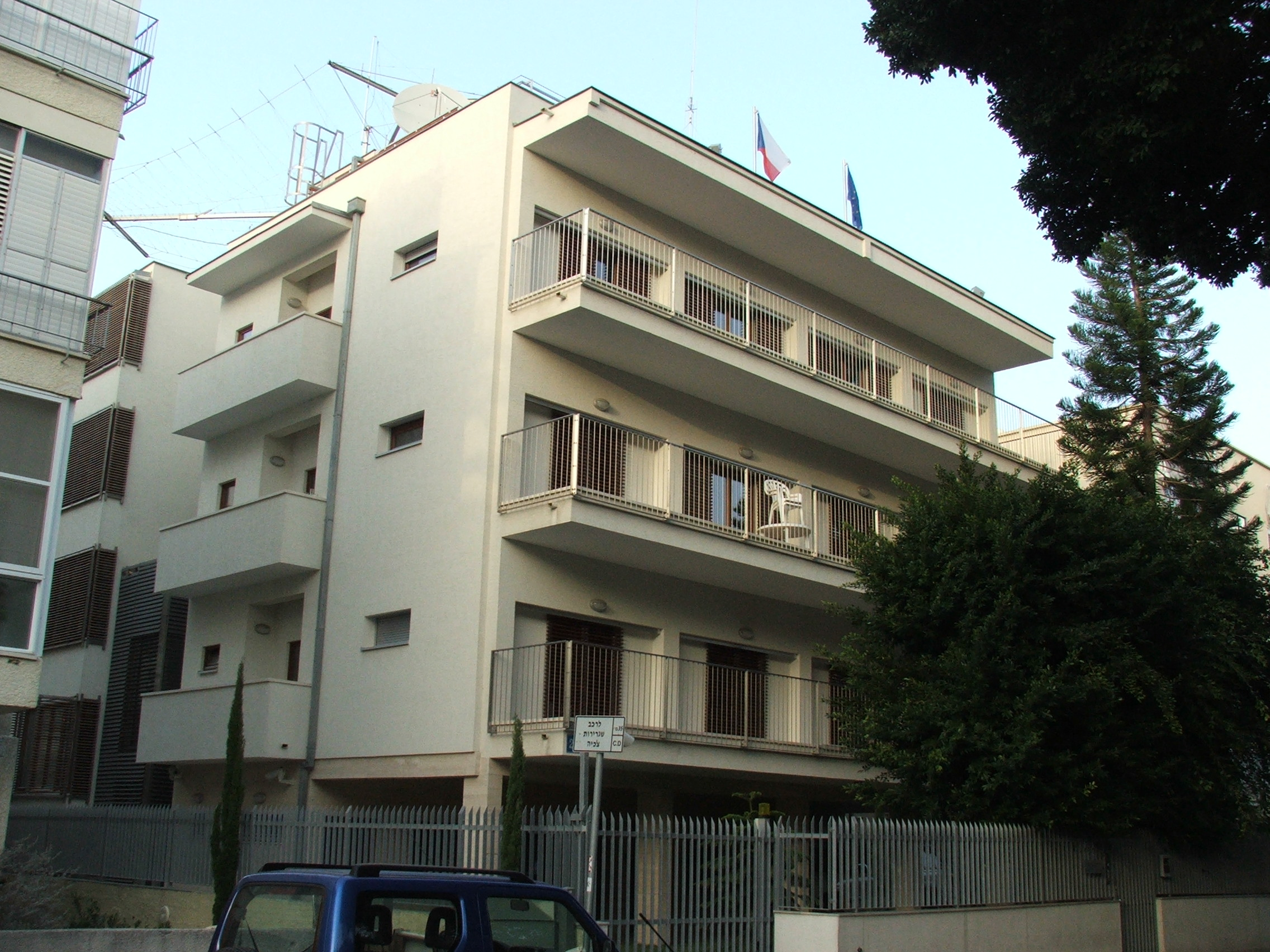 Embassy of Czechia in Tel Aviv - Israel.